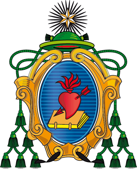 Coats of arms. Augustinian Recolects